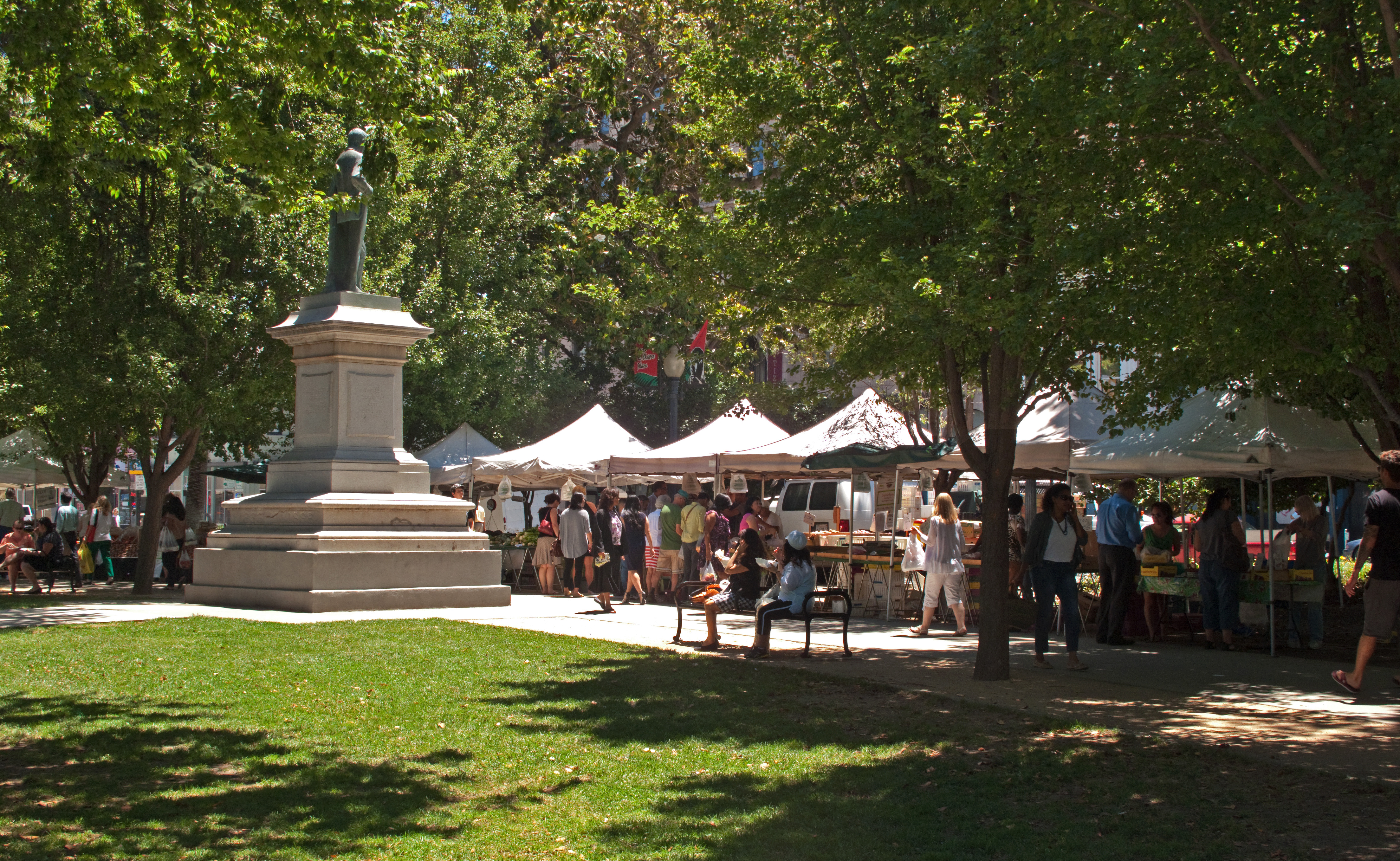 Farmers' market in Cesar Chavez Park, Sacramento, California.